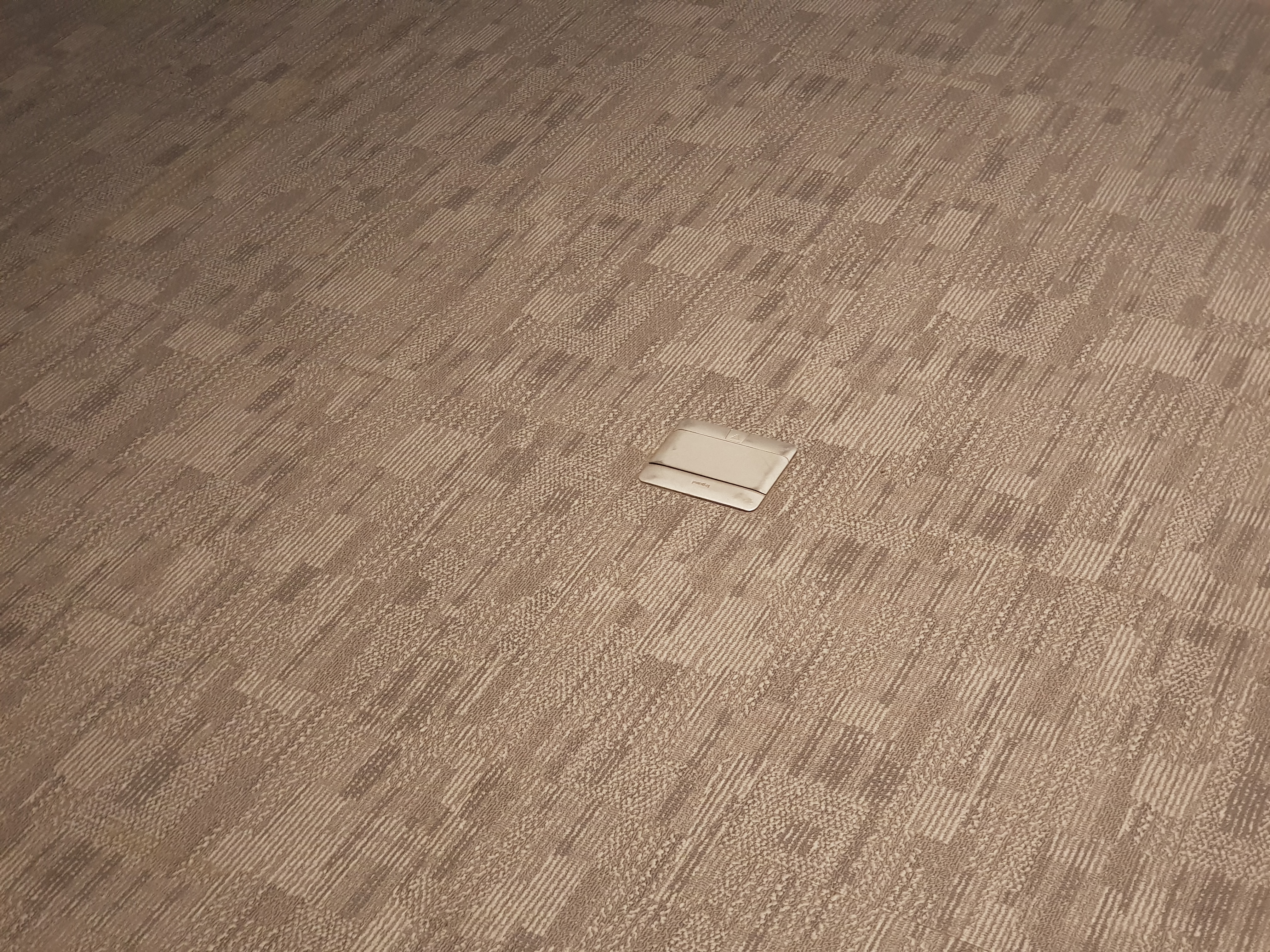 Floor Switch of Mandalay Convention Centre